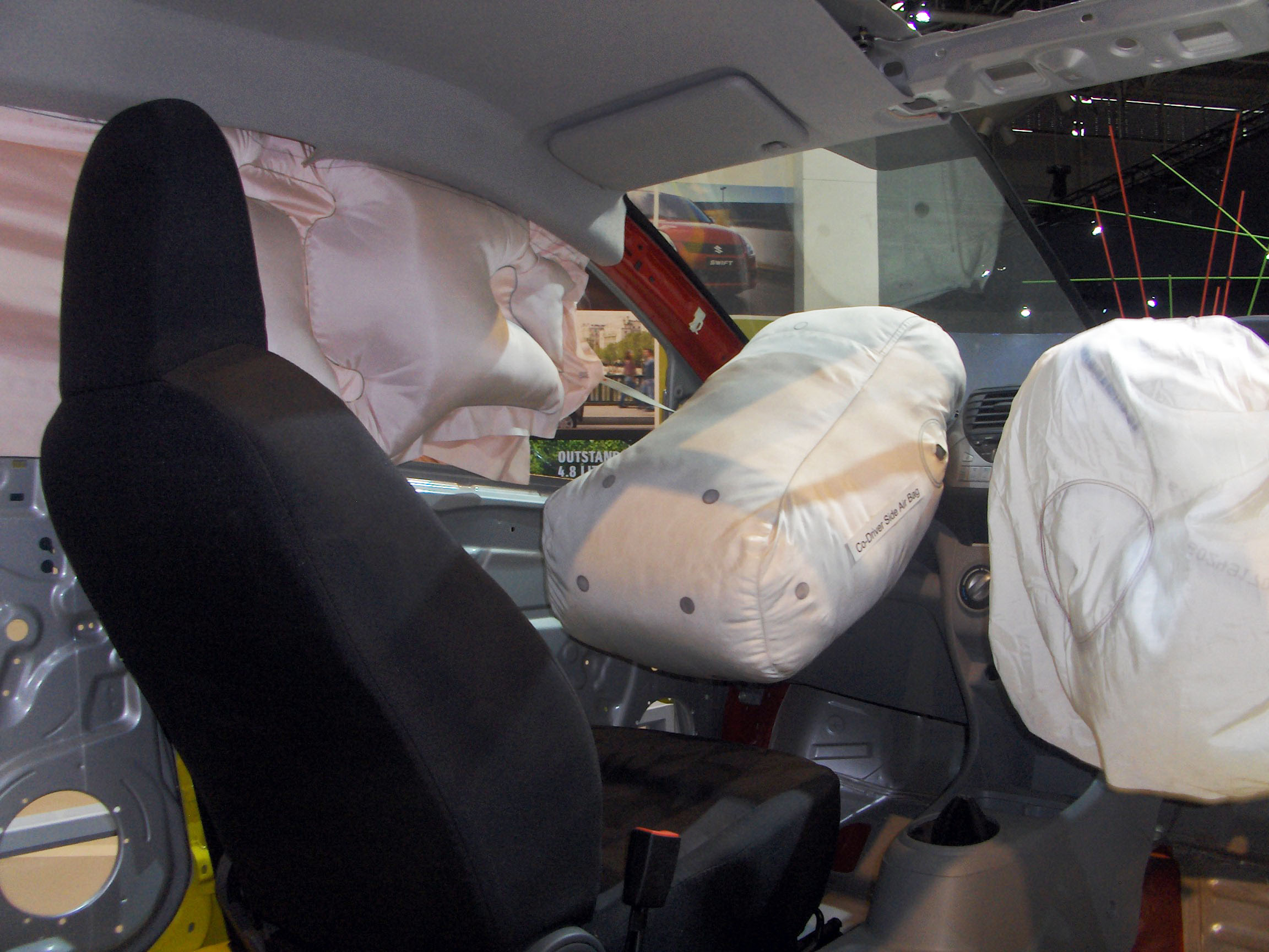 The airbags of a Suzuki Alto at the 2010 AIMS.